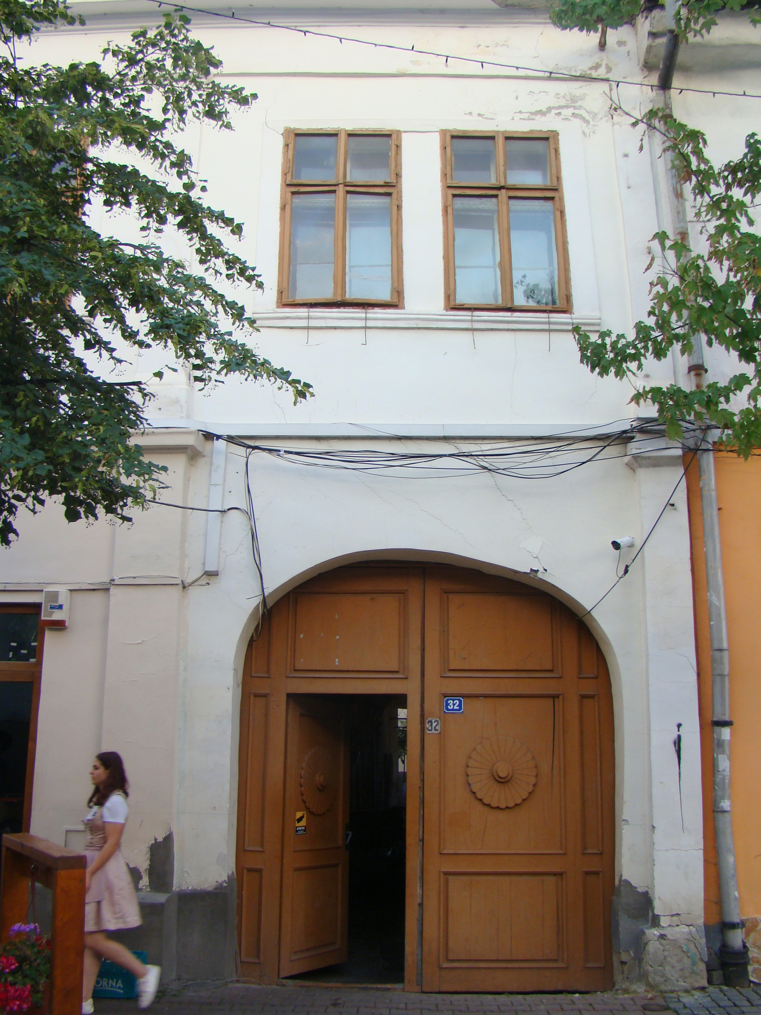 House, historic monument, in Bistrița, Liviu Rebreanu street 32